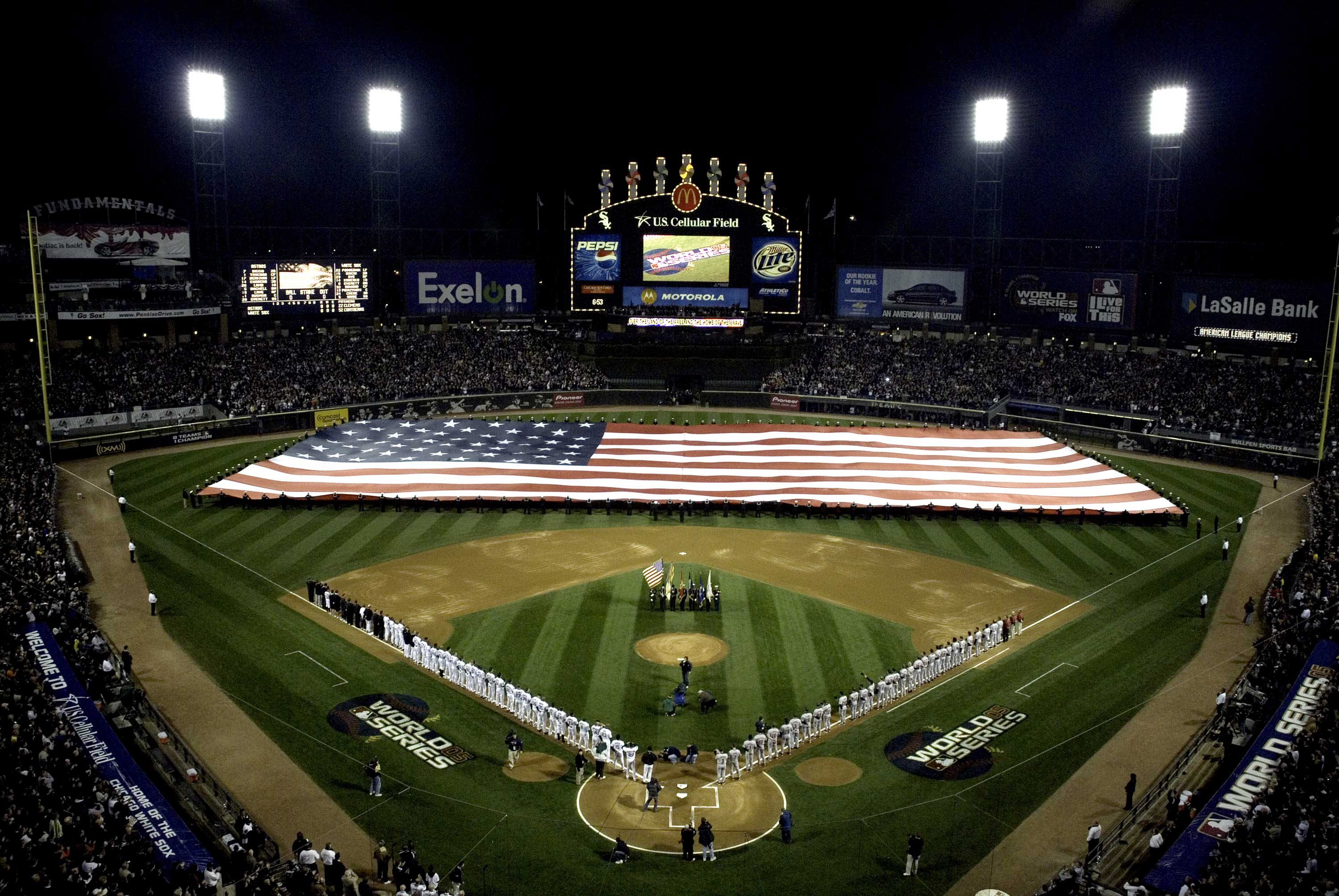 Chicago, Ill. (Oct. 22, 2005) – One hundred twenty-five Sailors from Naval Station Great Lakes unfurl the Stars and Stripes during the singing of the National Anthem before 41,206 fans for the opening game of this years World Series, pitting the Chicago White Sox against the Houston Astros. The series is the White Sox's first in 88 years. U.S. Navy photo by Hospital Corpsman 1st Class Dwayne Snader (RELEASED)